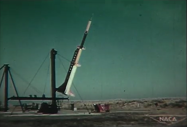 Langley's multistage rocket early prototype